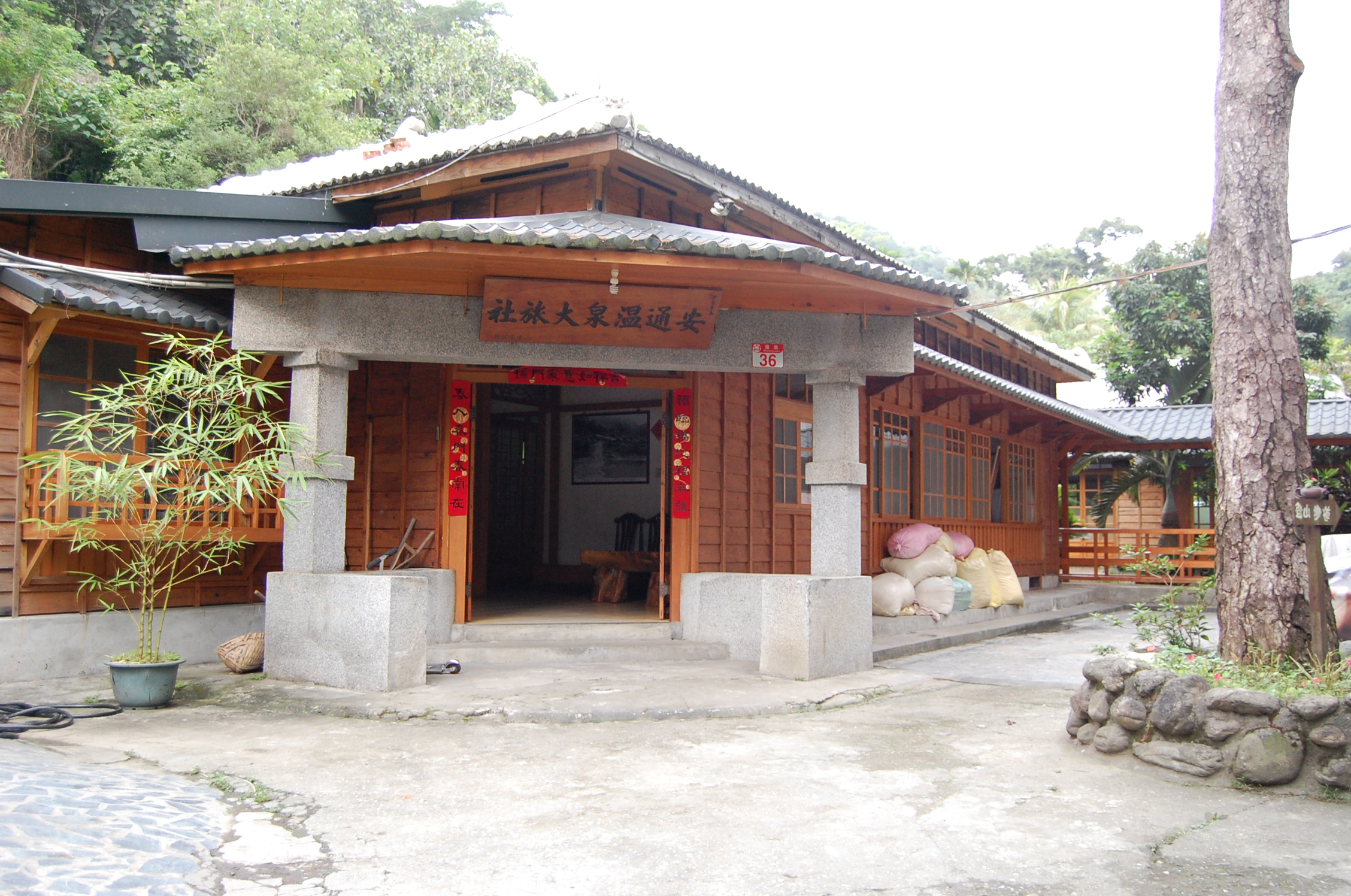 Antong Hot Spring Hostel, a historic building in Hualien County.